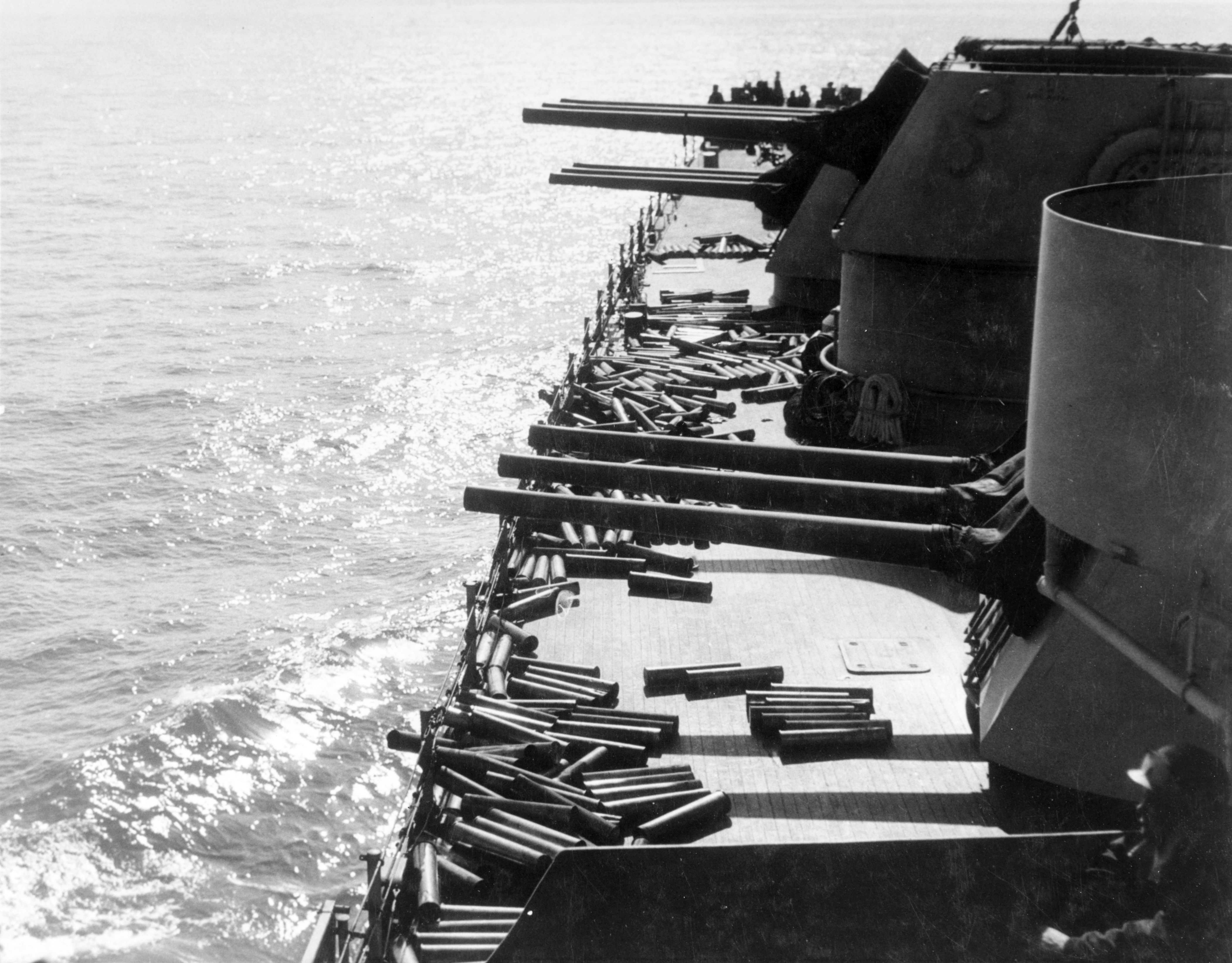 Invasion of Sicily, July 1943: Empty shell cases litter the deck near the forward 6"/47 gun turrets of USS Brooklyn (CL-40), after she had bombarded Licata, Sicily, during the early hours of the invasion, 10 July 1943.